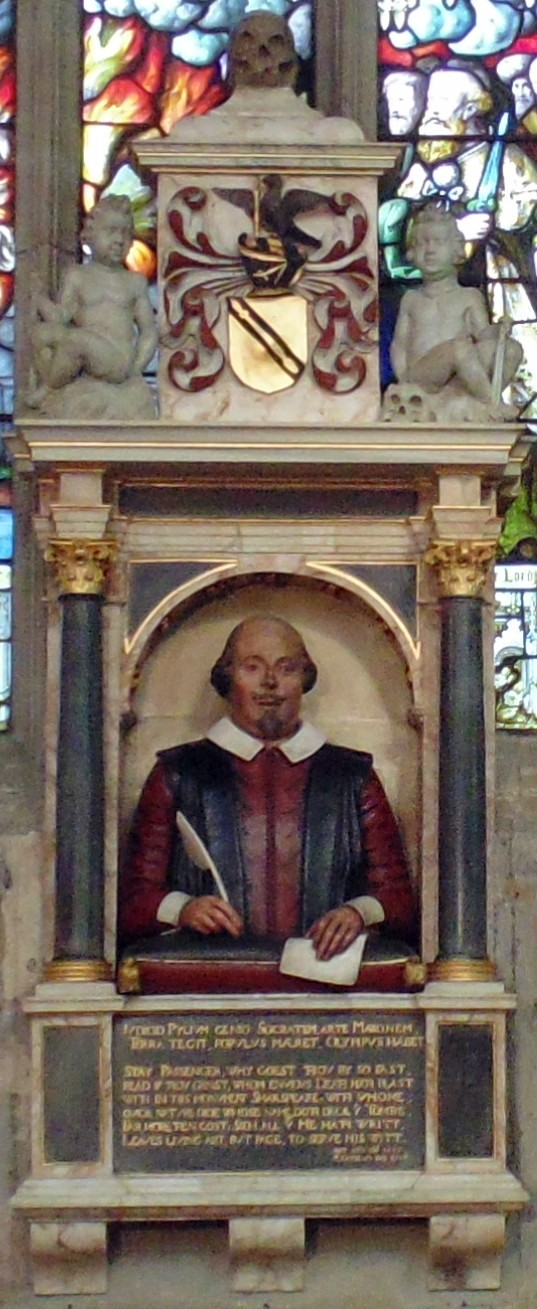 Shakespeare's funerary monument, Holy Trinity Church, Stratford Upon Avon, England